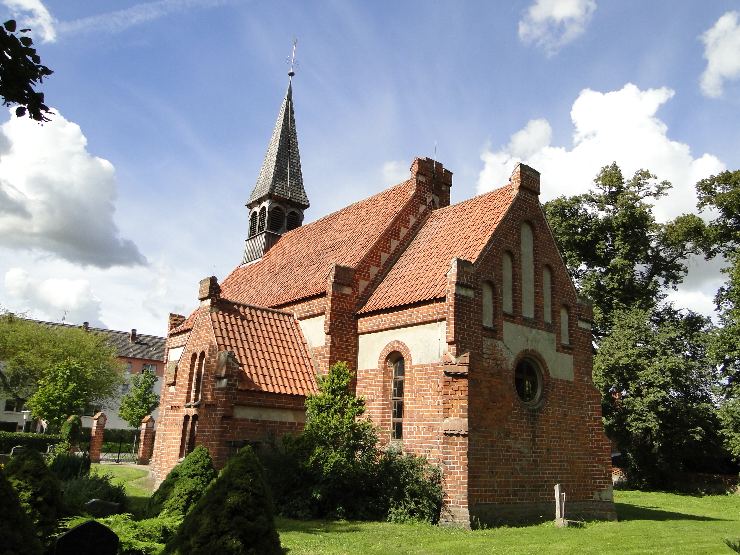 Church in Marihn, district Müritz, Mecklenburg-Vorpommern, Germany